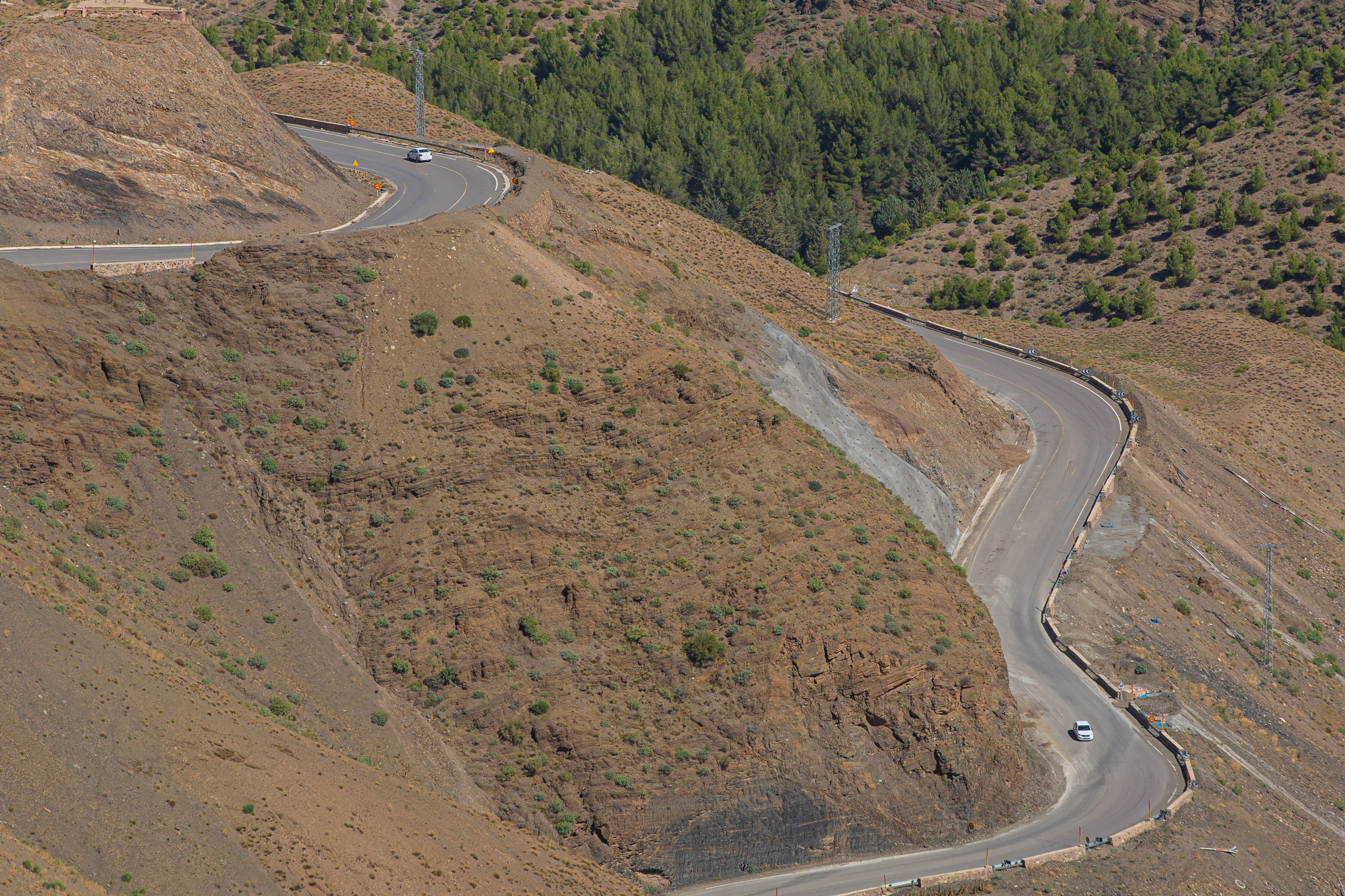 This is an image with the theme "Africa on the Move or Transport" from: Morocco